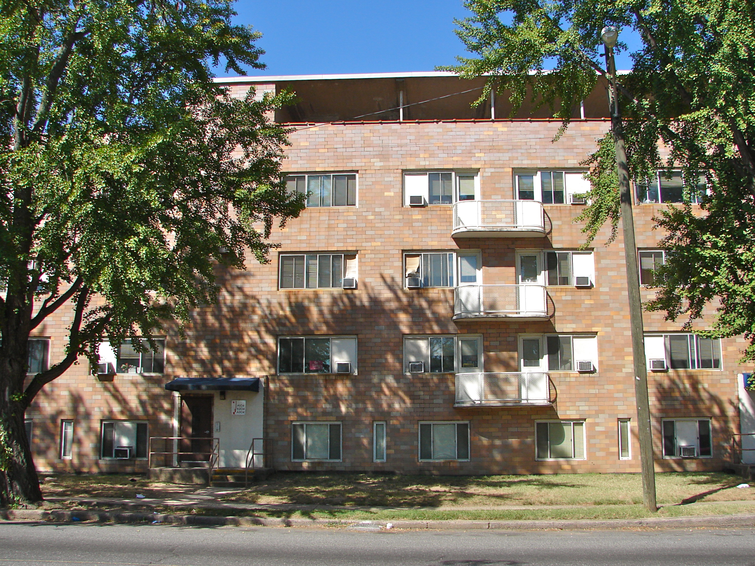 Carl Mackley Houses in Philadelphia on the NRHP since May 6, 1998. At 4301 East Bristol Street in the NE Philly neighborhood of Juniata. An early non-governmental "housing project."